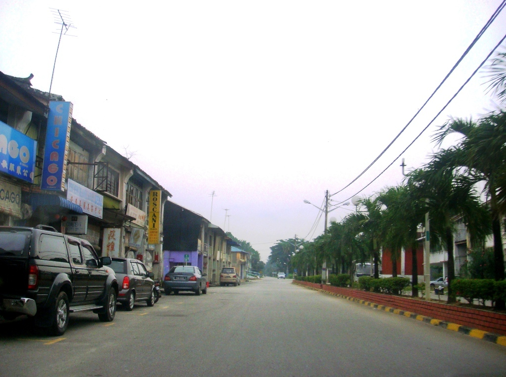 The town of Nibong Tebal in Southern Seberang Perai, Penang, Malaysia